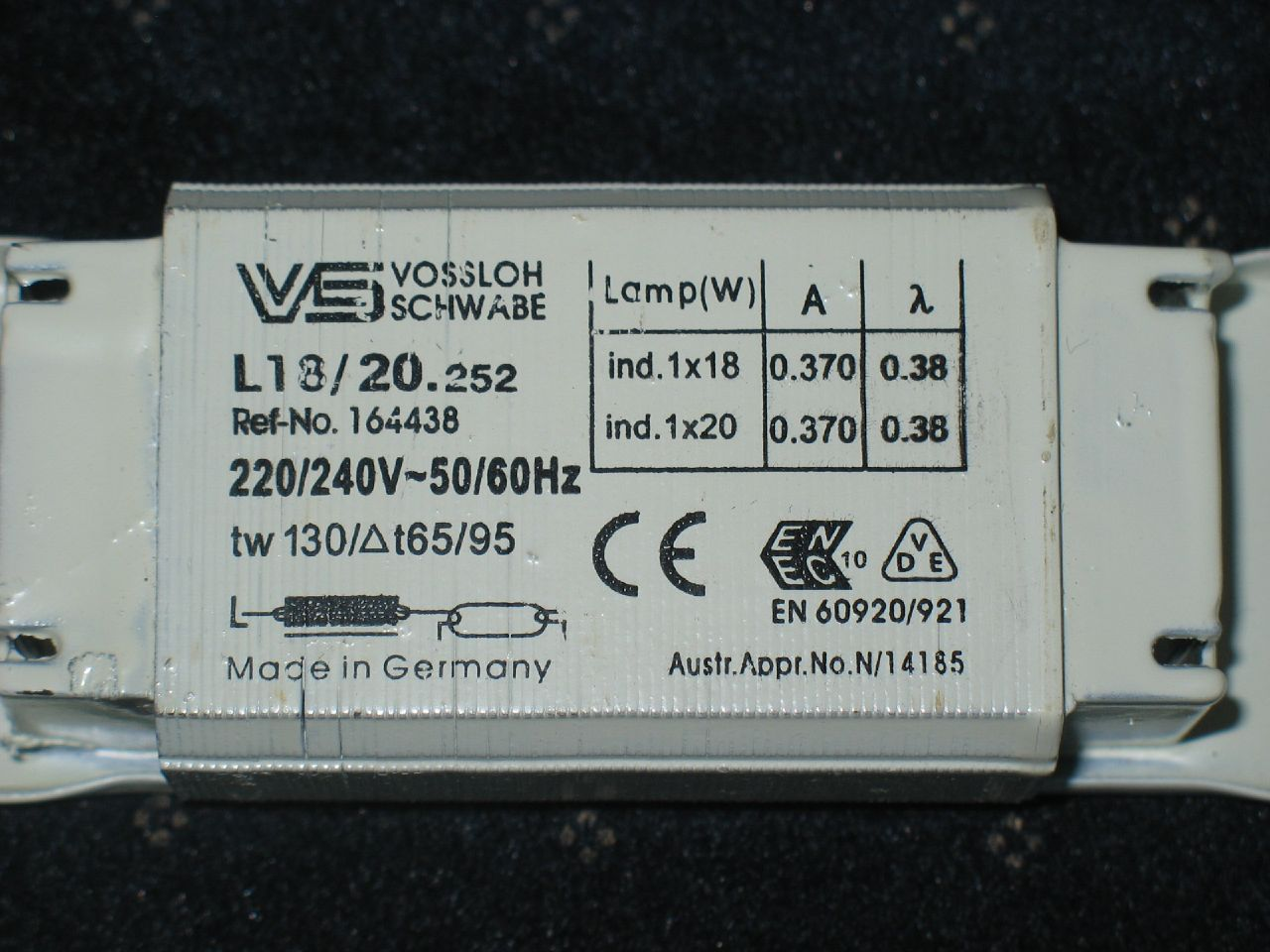 Low quality components and counterfeits are one of the big factors in the nightmare of the electrical situation in Nigeria. Sold as a good quality German import, closer inspection shows that this ballast is nothing of the kind. For example, examine the printing carefully. Sometimes it's almost impossible to find the real ones.